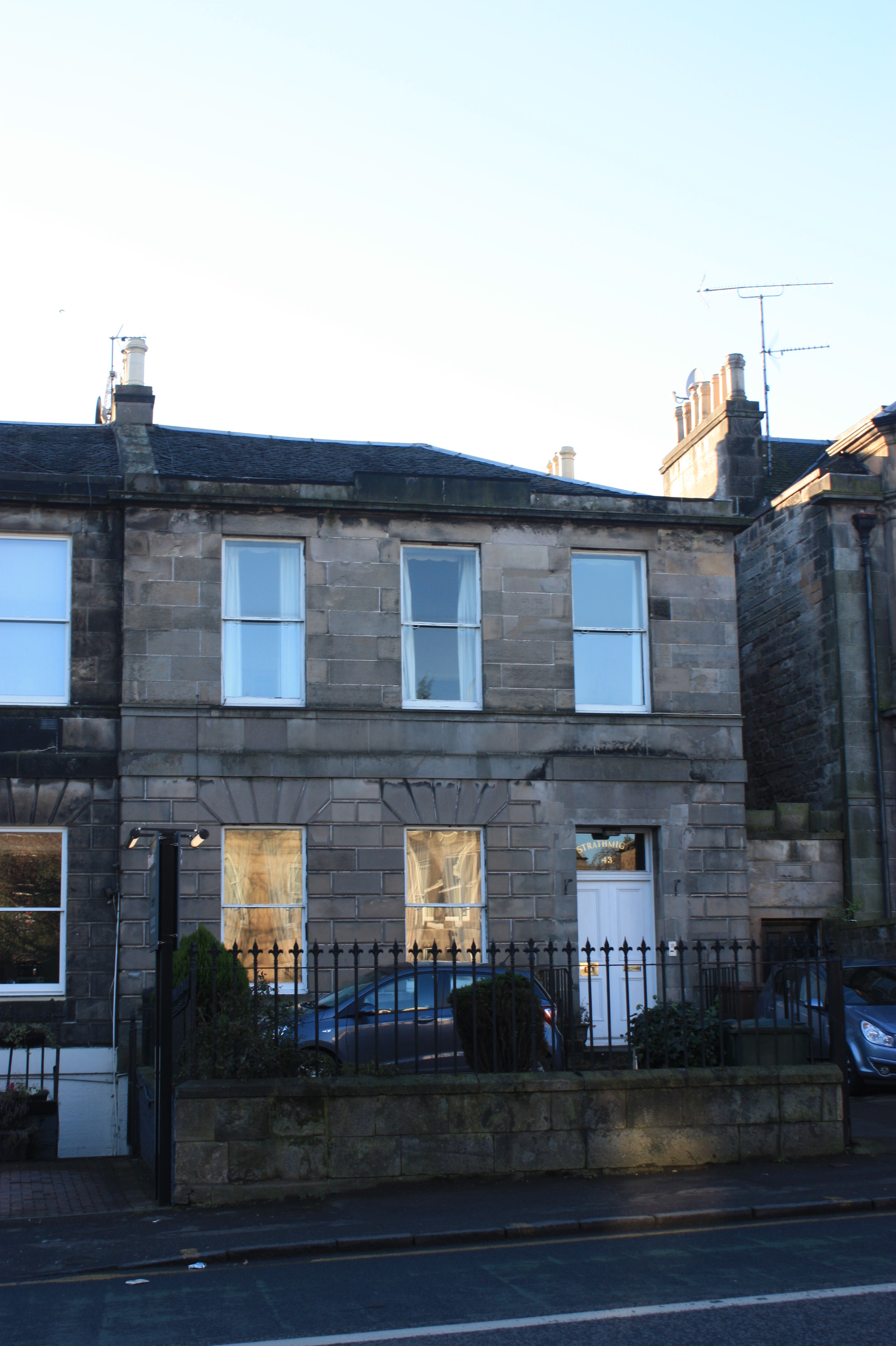 43 Minto Street, Edinbugh